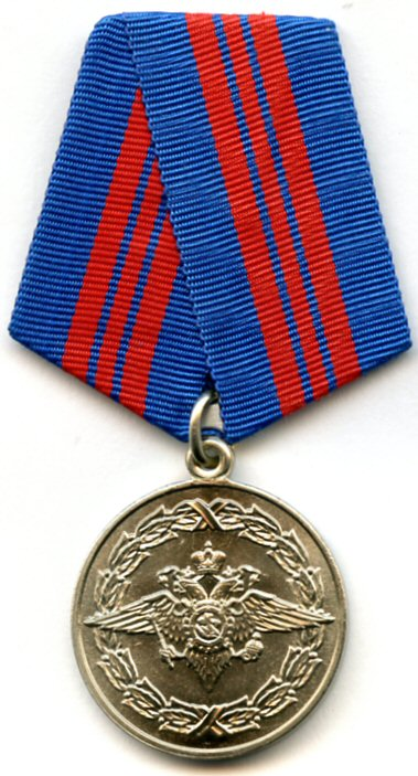 Russian Federation, Interior Ministry (MVD), Commemorative Medal for the 200th Anniversary of the Ministry of Internal Affairs. Instituted on 5 June 2002 by ministerial order no 542. Awarded to military and civilian personnel or former officers or civilian personnel of the Ministry of the Interior of the Russian Federation who served faultlessly for 20 years or more.